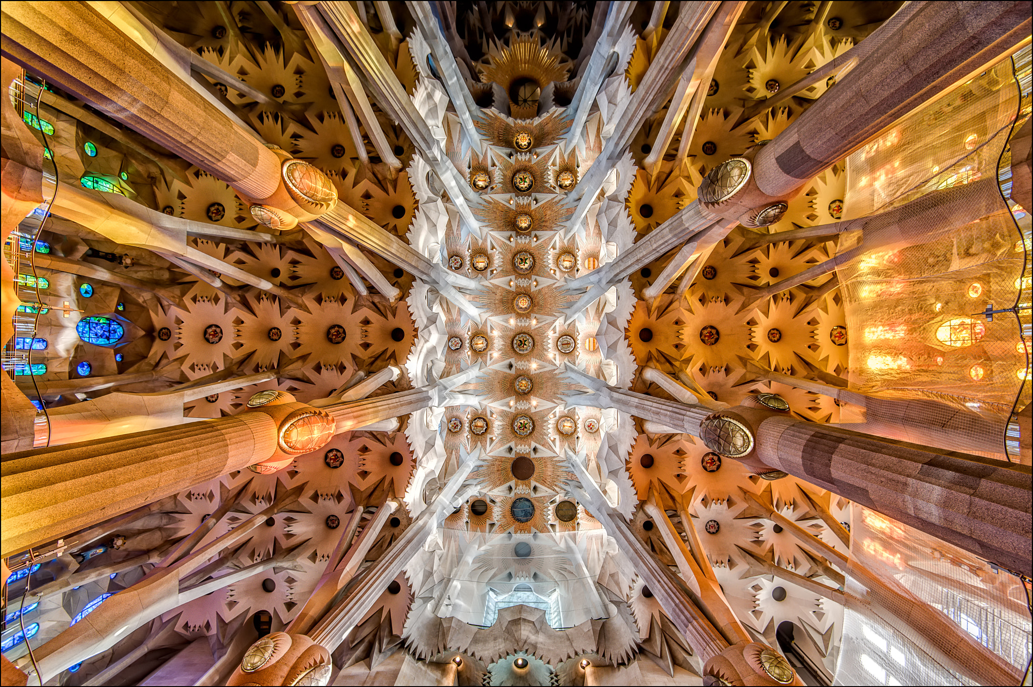 500px provided description: This is the scene that greets you if you look straight up as you enter the Bas?lica de la Sagrada Fam?lia (Church of the Holy Family) in Barcelona, Catalonia, Spain. Designed by Catalan architect Antoni Gaud?, it is an incredible building really worth seeing, even though it is as yet incomplete even though construction was started in 1882. Here you see an aspect of part of the ceiling and the wonderful walls full of stained glass through which is streaming the late afternoon sun. [#travel ,#church ,#sun ,#europe ,#architecture ,#catalonia ,#spain ,#columns ,#barcelona ,#ceiling ,#stained glass ,#sacred ,#basilica ,#sagrada familia ,#intricate ,#antoni gaudi ,#workmanship ,#holy family ,#streaming sun ,#gaudi]